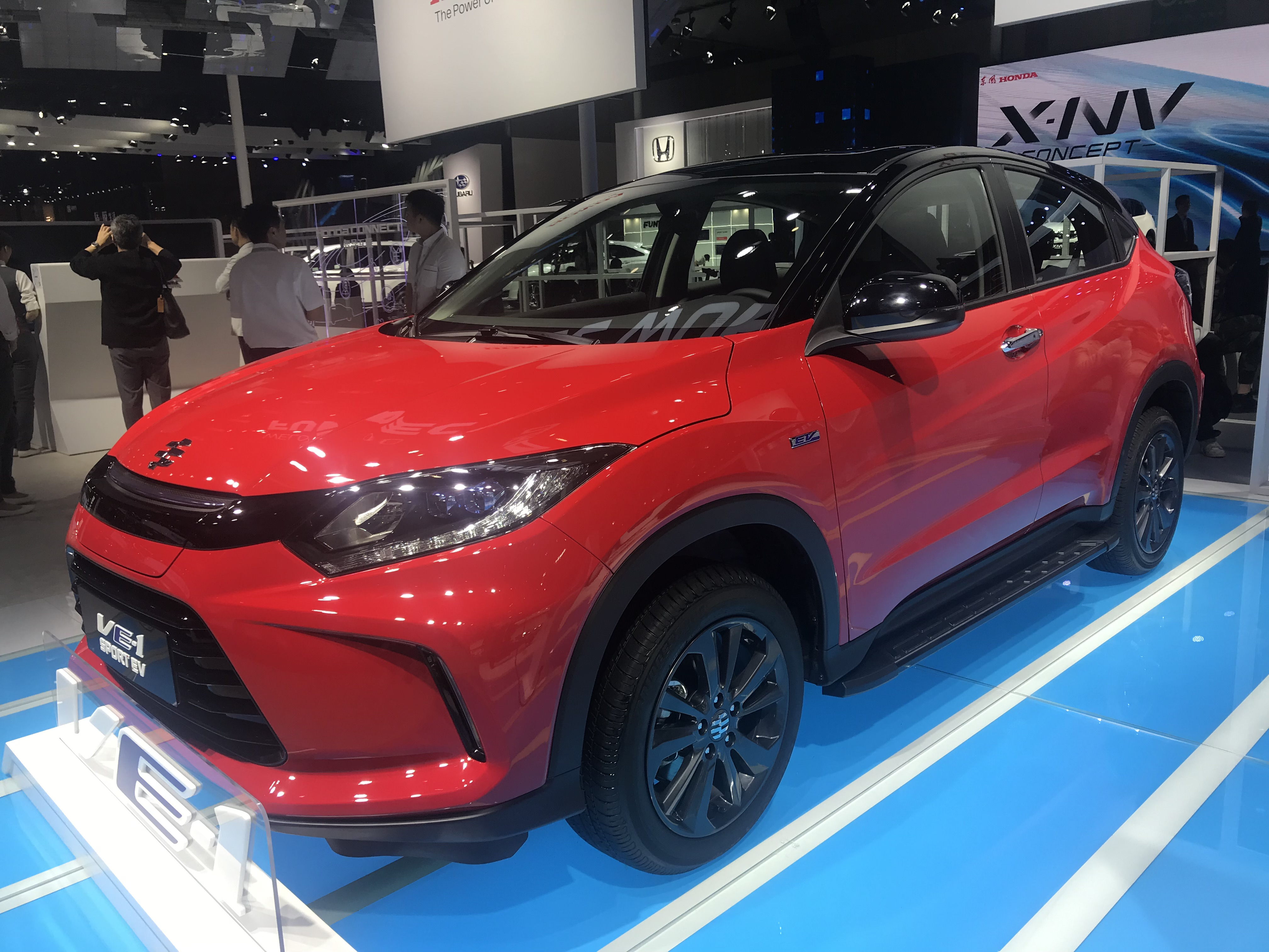 Everus VE-1 front